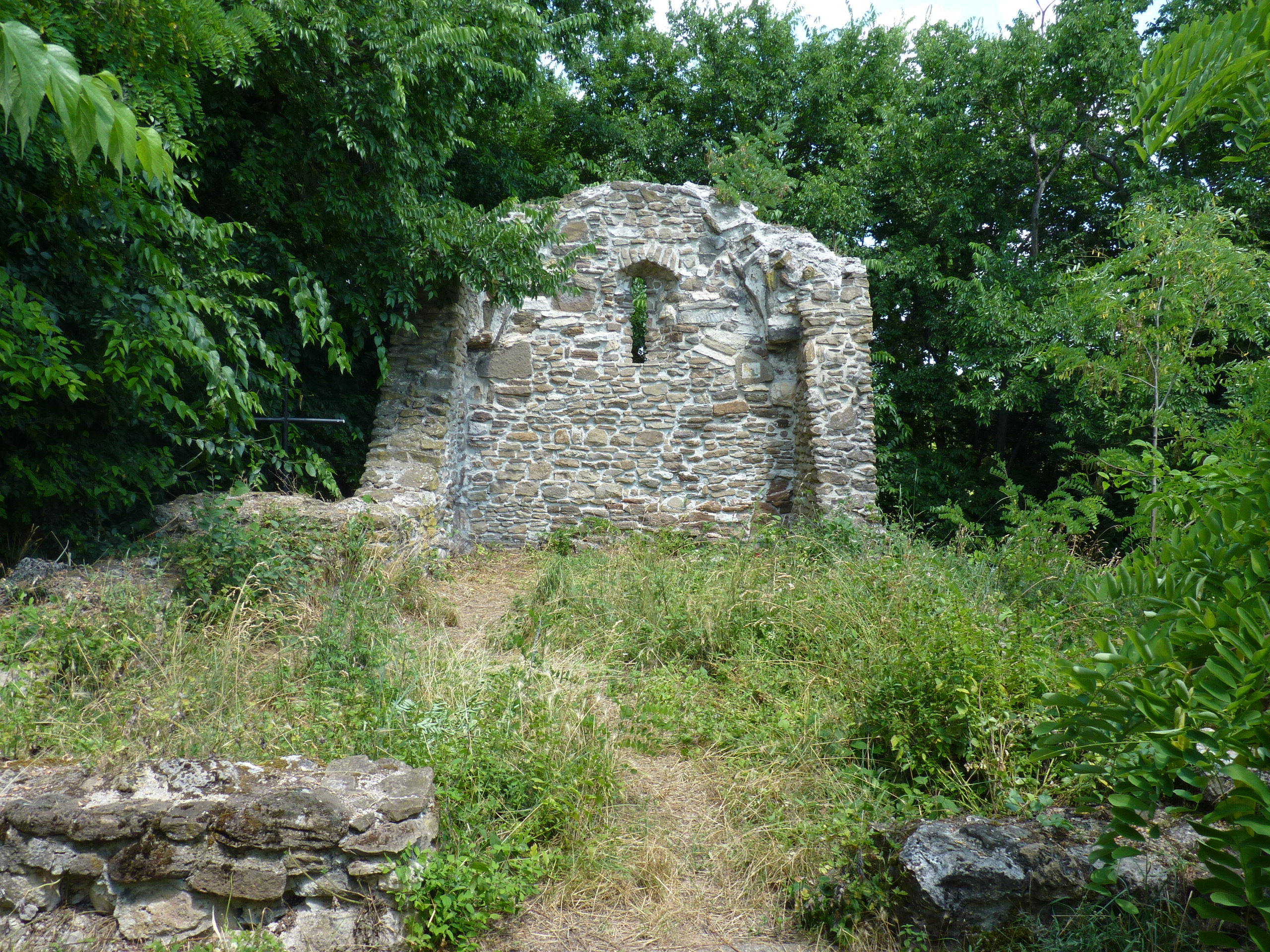 Újlak church ruins, Tihany